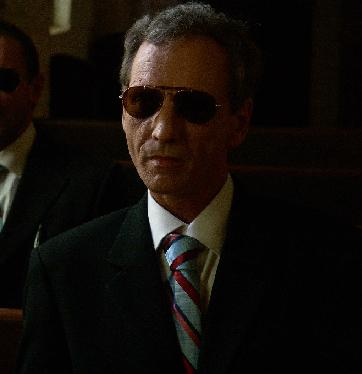 Portrait of Ted Newsom, 2007